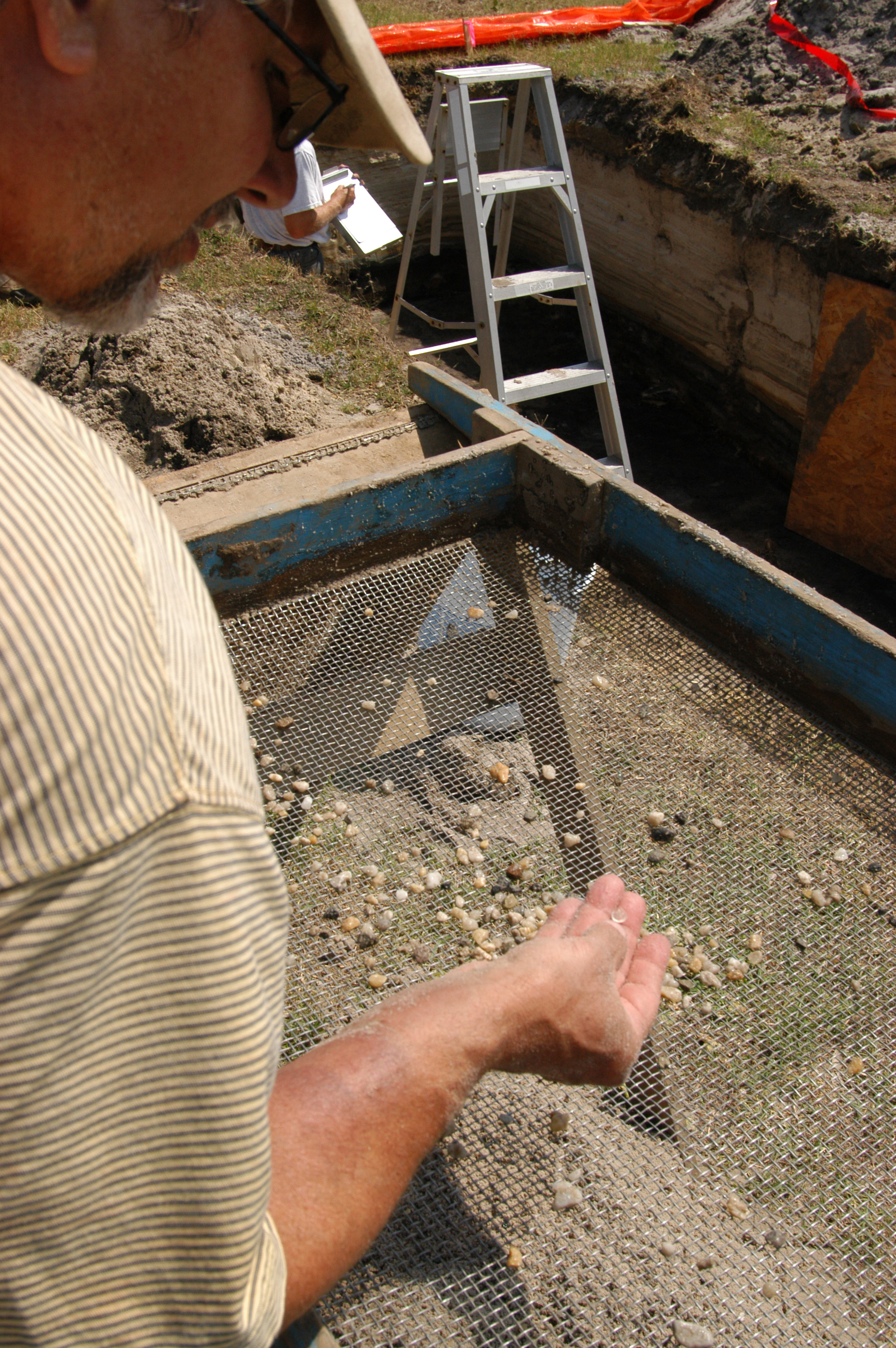 FORT MONROE, Va. -- Dr. Michael L. Hargrave, an archaeologist with the U.S. Army Engineer Research Development Center’s Construction Engineering Research Laboratory, examines a piece of glass discovered during an archaeological dig here June 11. Hargrave is part of a team from ERDC-CERL that's attempting to determine the existence, location and condition of a Civil War-era Contraband or Freedman cemetery that's believed by many to be located on Fort Monroe. U.S. Army photo/Mark Haviland.